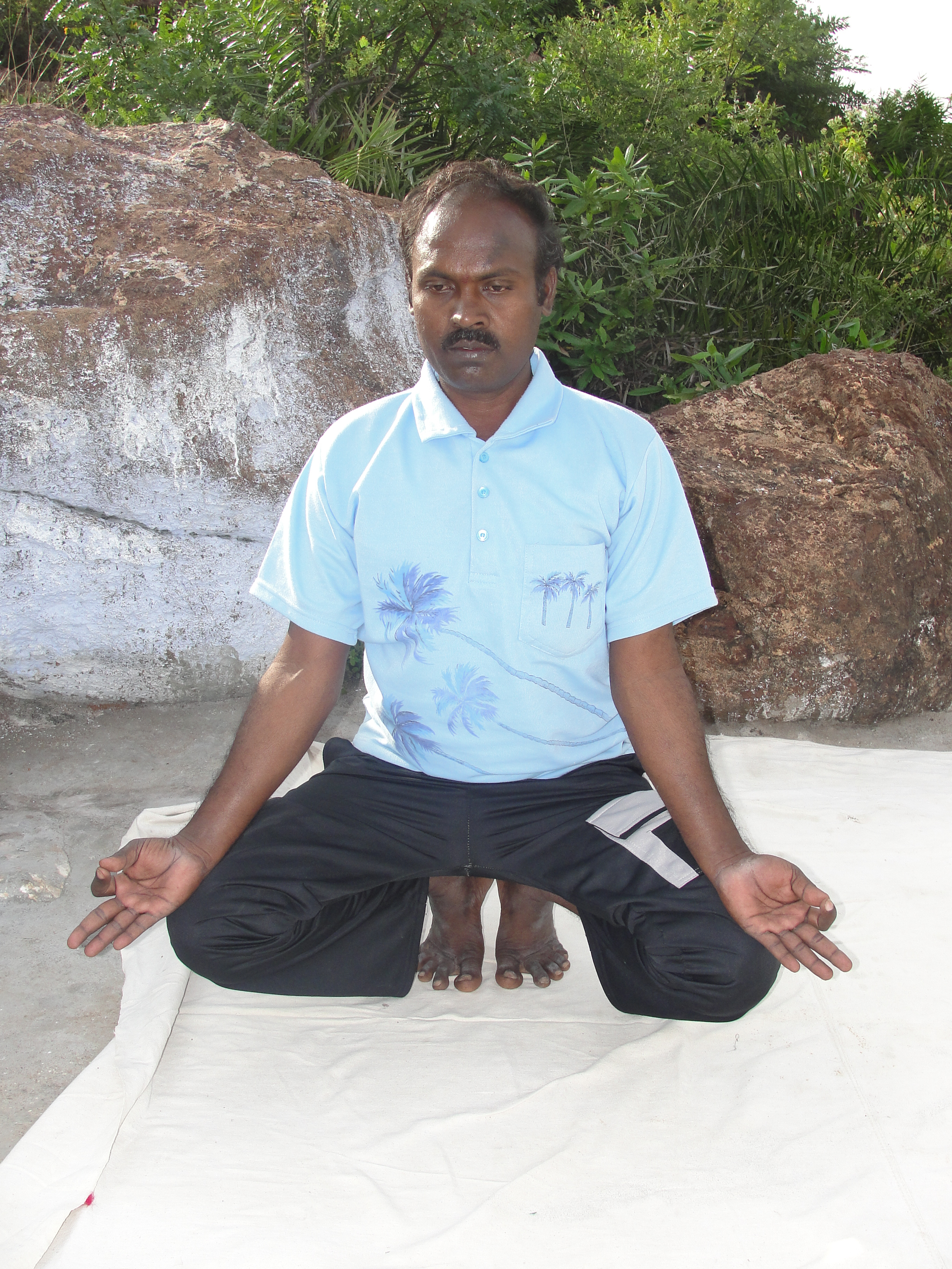 Bhadrasanam